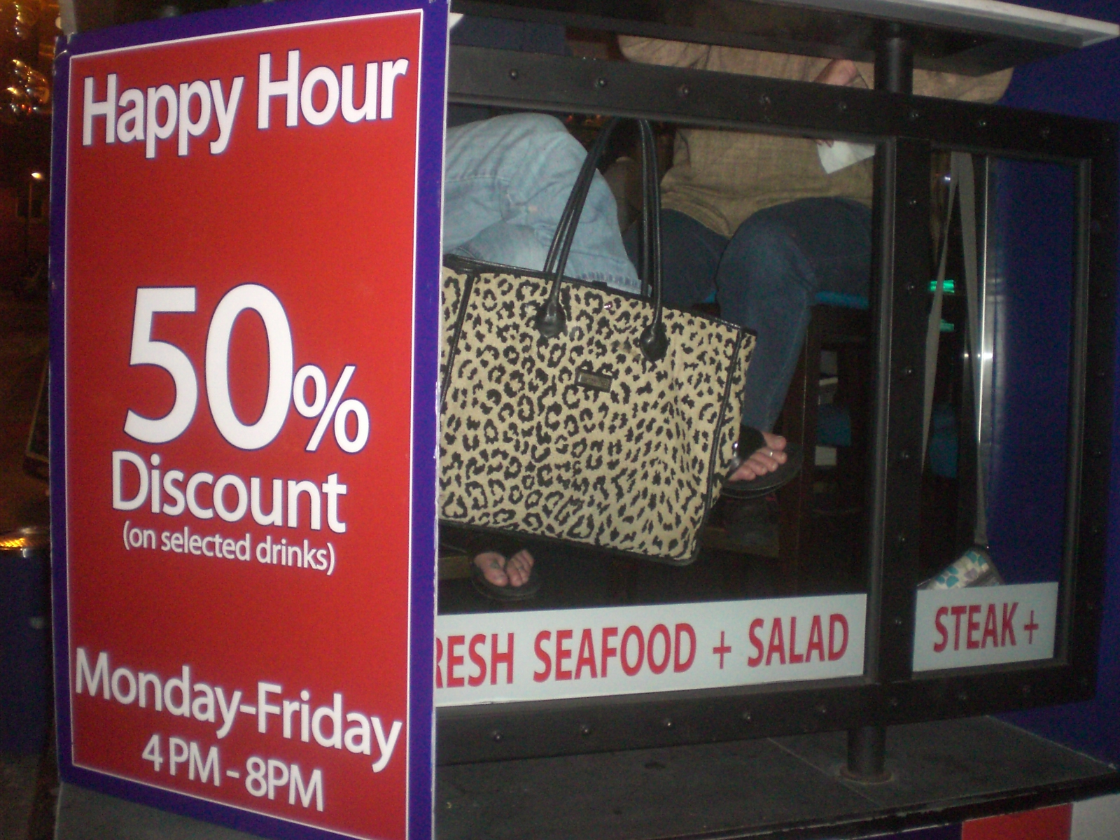 中環蘇豪區的zh:歡樂時光